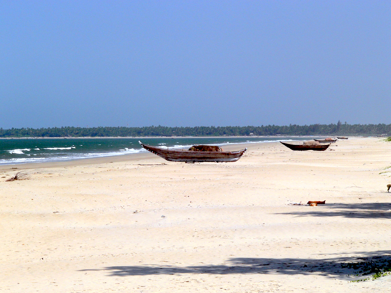 Tarkarli Beach from MTDC Resort. Maharashtra, India